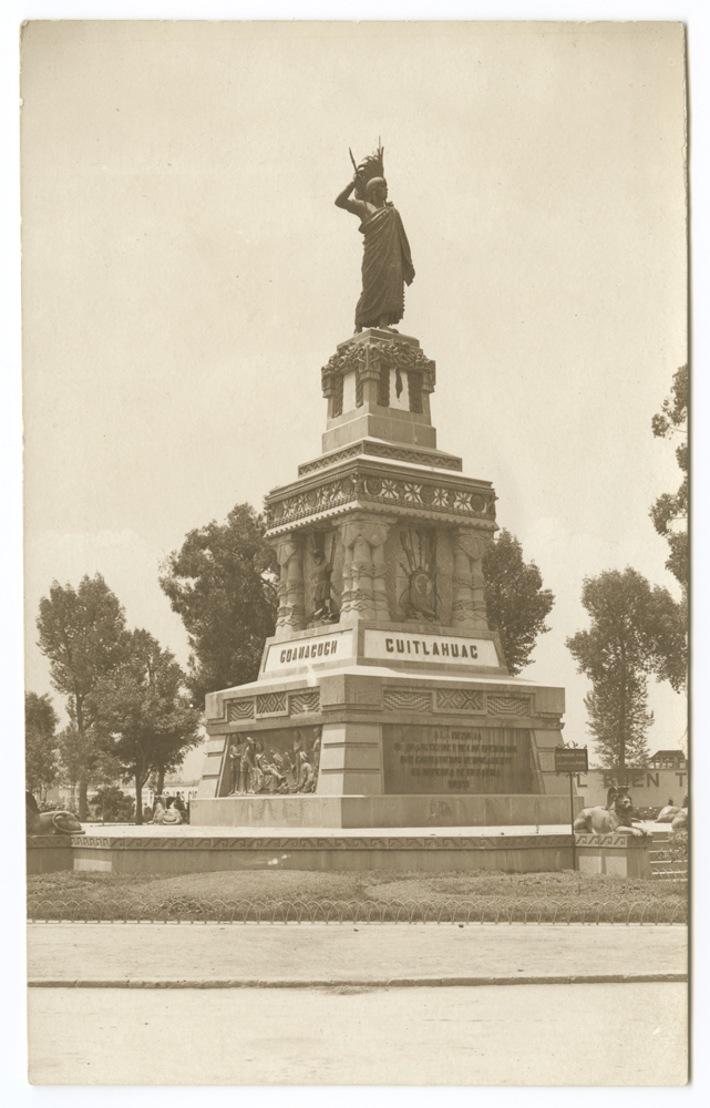 Title: Monumento a Cuauhtemoc, Mexico. Creator: Brehme, Hugo, 1882-1954 Date: ca. 1906-1920 Part Of: Brehme photographs of Mexico Place: Mexico City (Mexico D.F.), Mexico Physical Description: 1 photographic print: gelatin silver File: ag1988_0700_0092c_monumento.jpg Rights: Please cite DeGolyer Library, Southern Methodist University when using this file. A high-resolution version of this file may be obtained for a fee. For details see the web page. For other information, . For more information and to view the image in high resolution, see: View the Mexico: Photographs, Manuscripts, and Imprints Collection